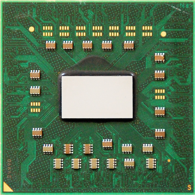 AMD Athlon 64 X2 5000+ Brisbane CPU without integrated heatspreader